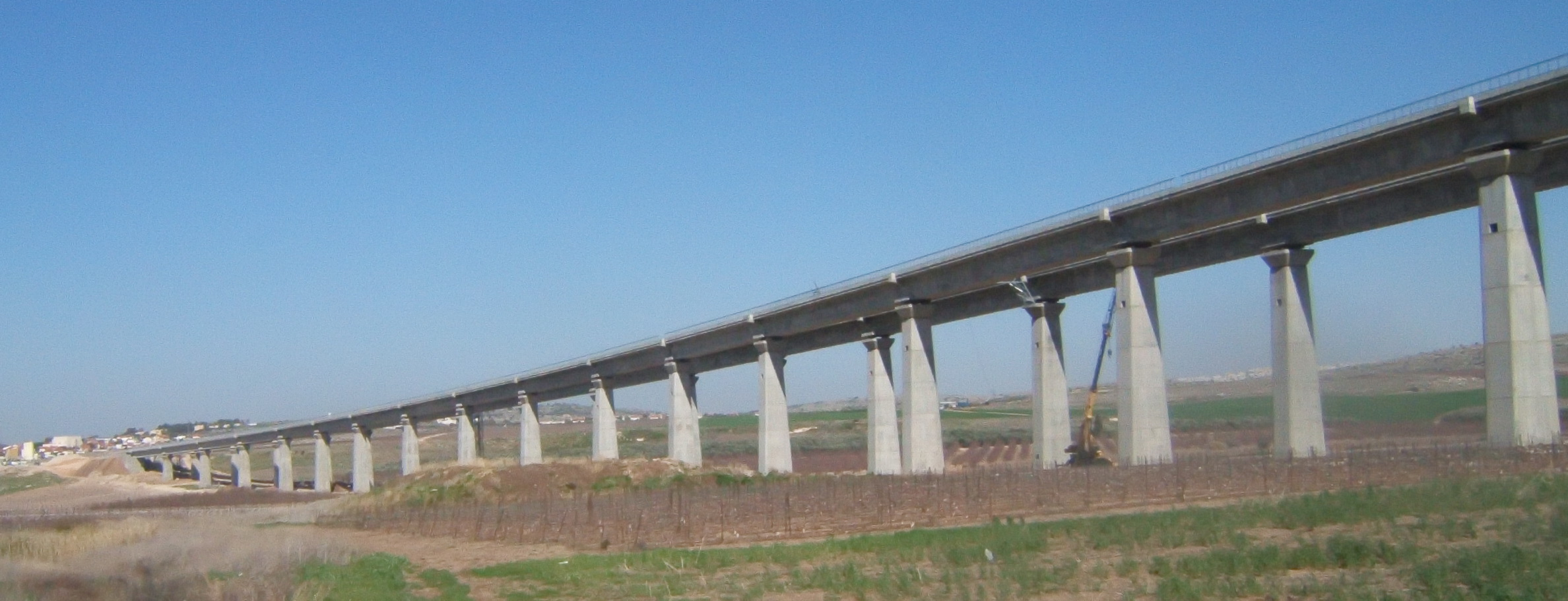 Bridge 6 on Modiin-Jerusalem new railway